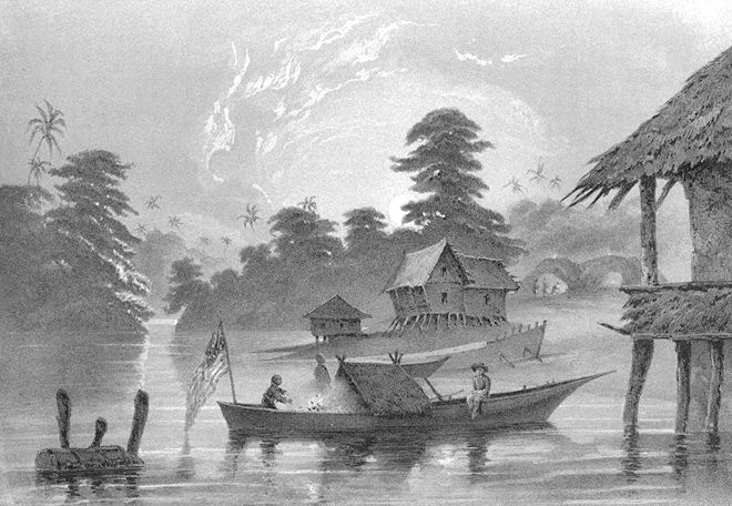 A lithograph made during the Perry Expedition depicting Chinese coolies at the kangkar (river base) of the Sungei Jurong (Jurong River) in Singapore. Gambier and pepper plantations are shown in the background.